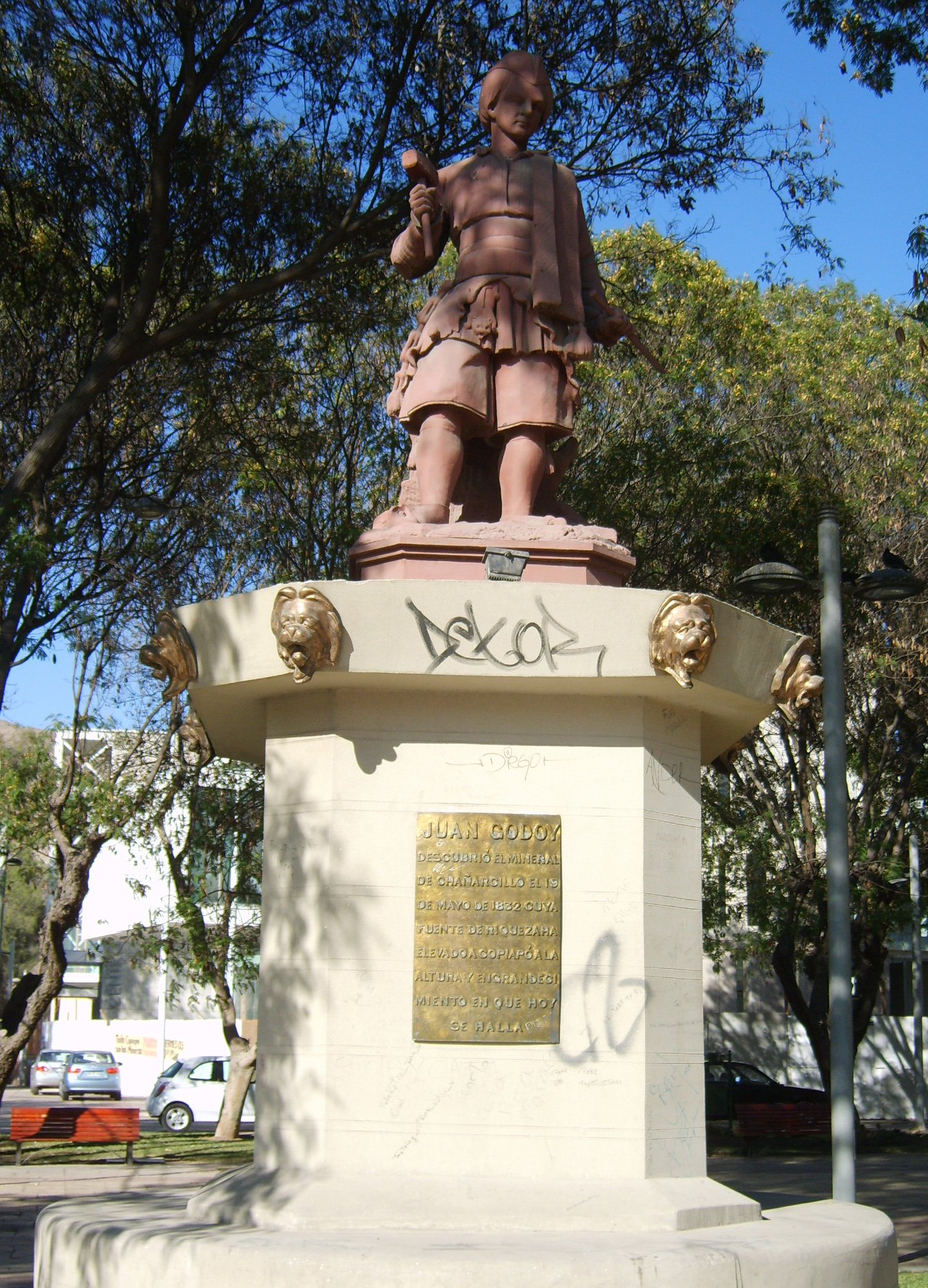 Juan Godoy statue located in San Francisco square in Copiapó, Chile.